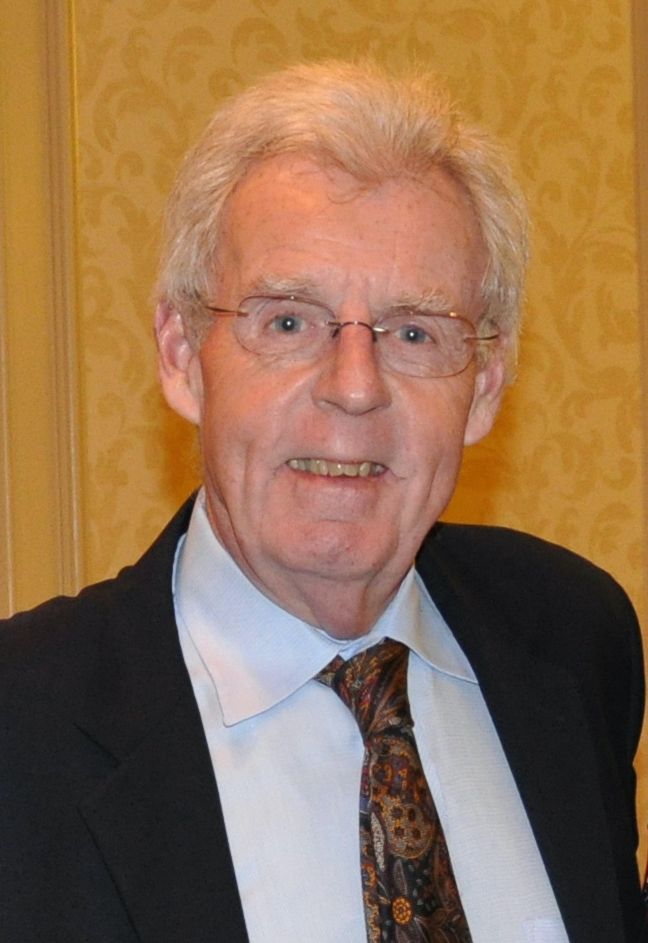 Peter Gammons, a journalist inducted to the Baseball Hall of Fame, spends a moment with NSSC Soldiers before the Nov. 10 Bosox Club Luncheon in Newton, Mass. From left are CW3 Michael Doe, Sgt. Christopher Sanchez and Spc. Matthew Dickson. This file has been extracted from another file: Peter Gammons with NSSC Soldiers.jpg